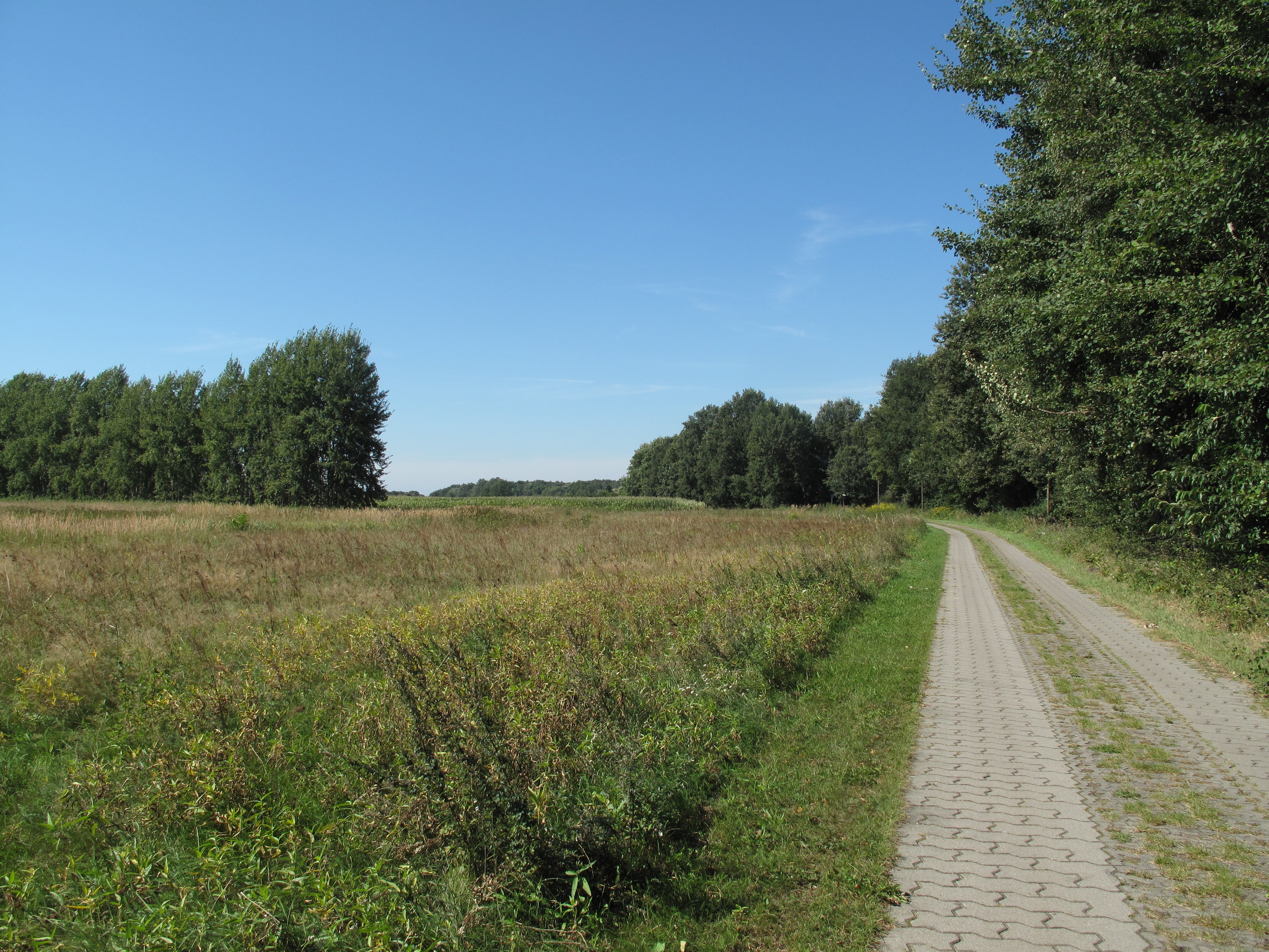 Landscape in the west of the Lebbiner See in Lebbin. The Lebbiner See is a lake in the town Storkow, District Oder-Spree, Brandenburg, Germany. Parts of the shore area belong to the eponymous village Lebbin, a part of Markgrafpieske, municipality Spreenhagen. The lake covers 28 hectare and has a depth of max. 4 meters. It is situated in the Dahme-Heideseen Nature Park.